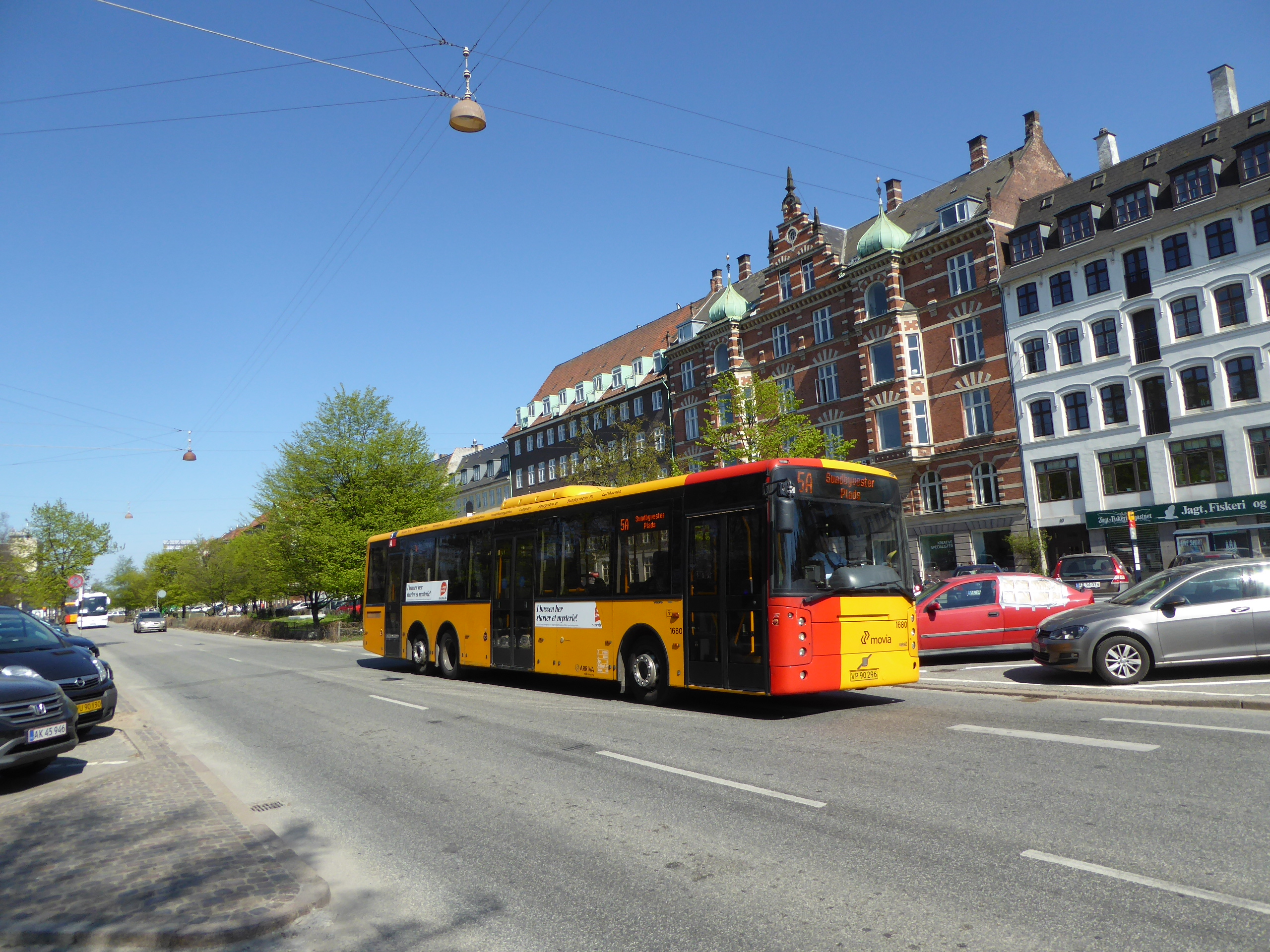 Movia bus line 5A on Nørre Voldgade in Indre By in Copenhagen.